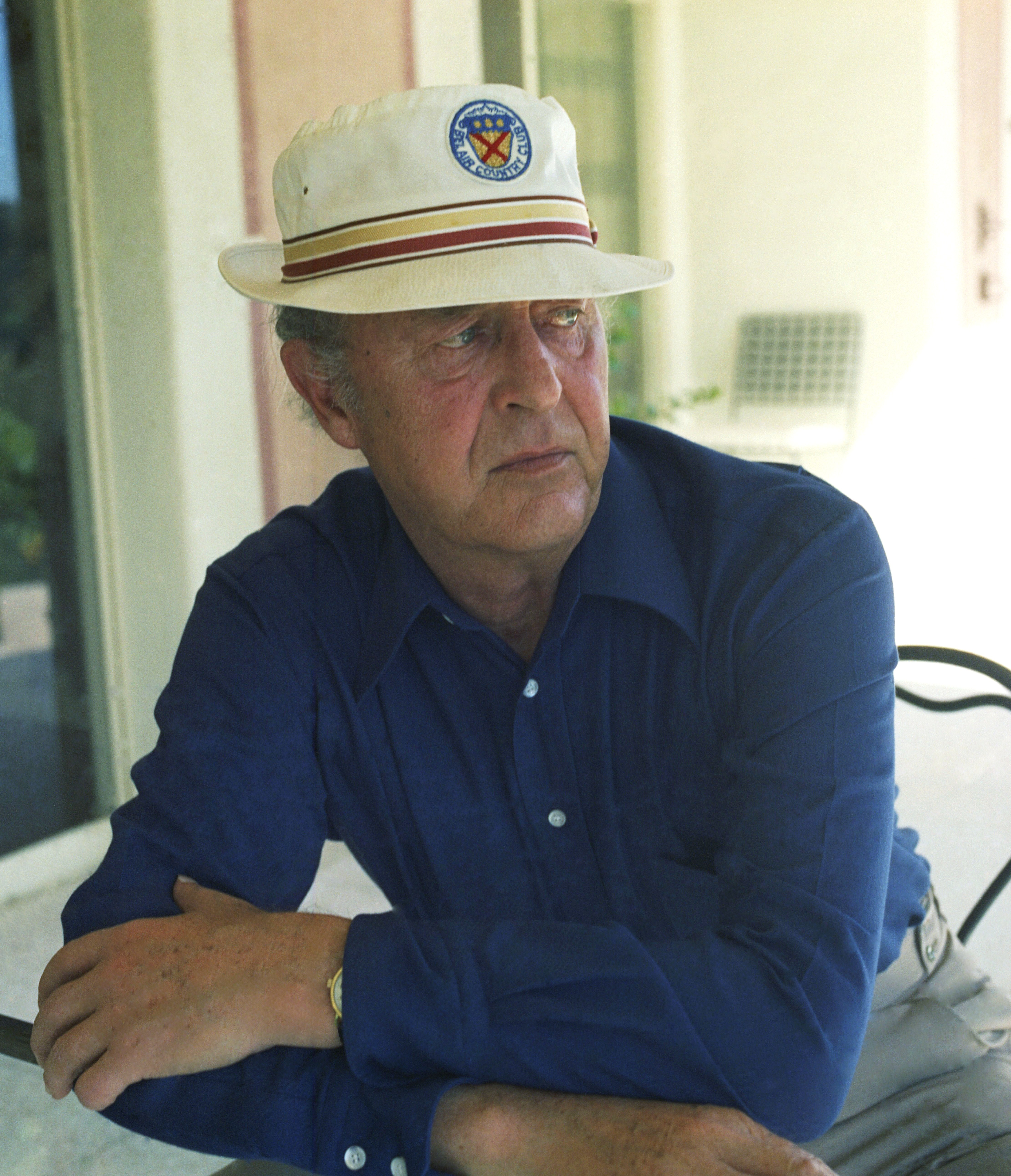 Ray Milland at home in Bel Air